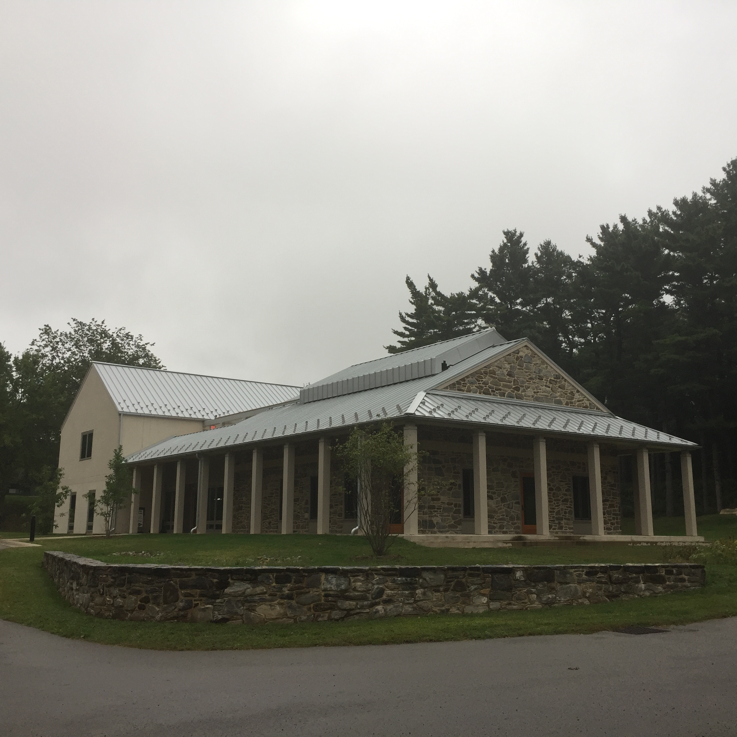 Side view of front entrance and exterior of meeting room of Chestnut Hill Friends Meetinghouse, 20 East Mermaid Lane in Chestnut Hill section of Philadelphia, PA.